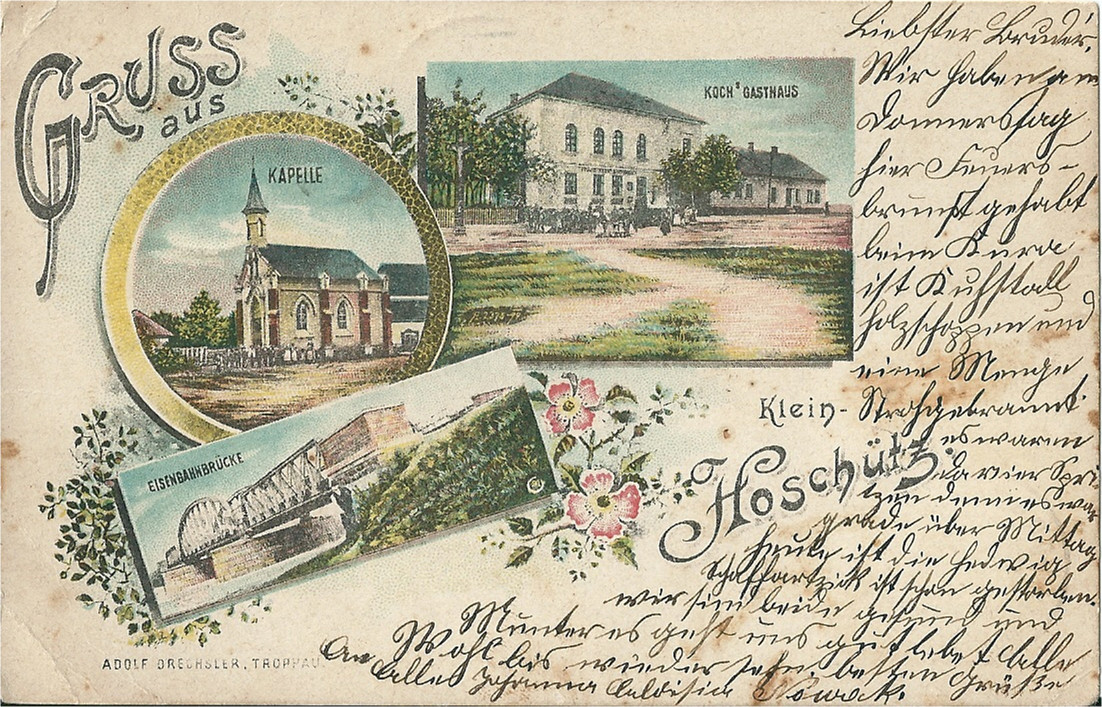 Village of Klein Hoschutz on a postcard. Circa 1901.